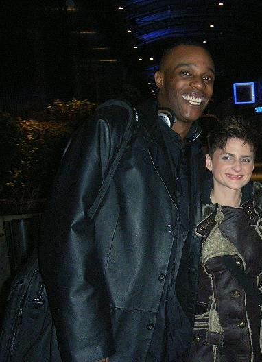 Magic Affair after a performance at the Ultimative Chartshow